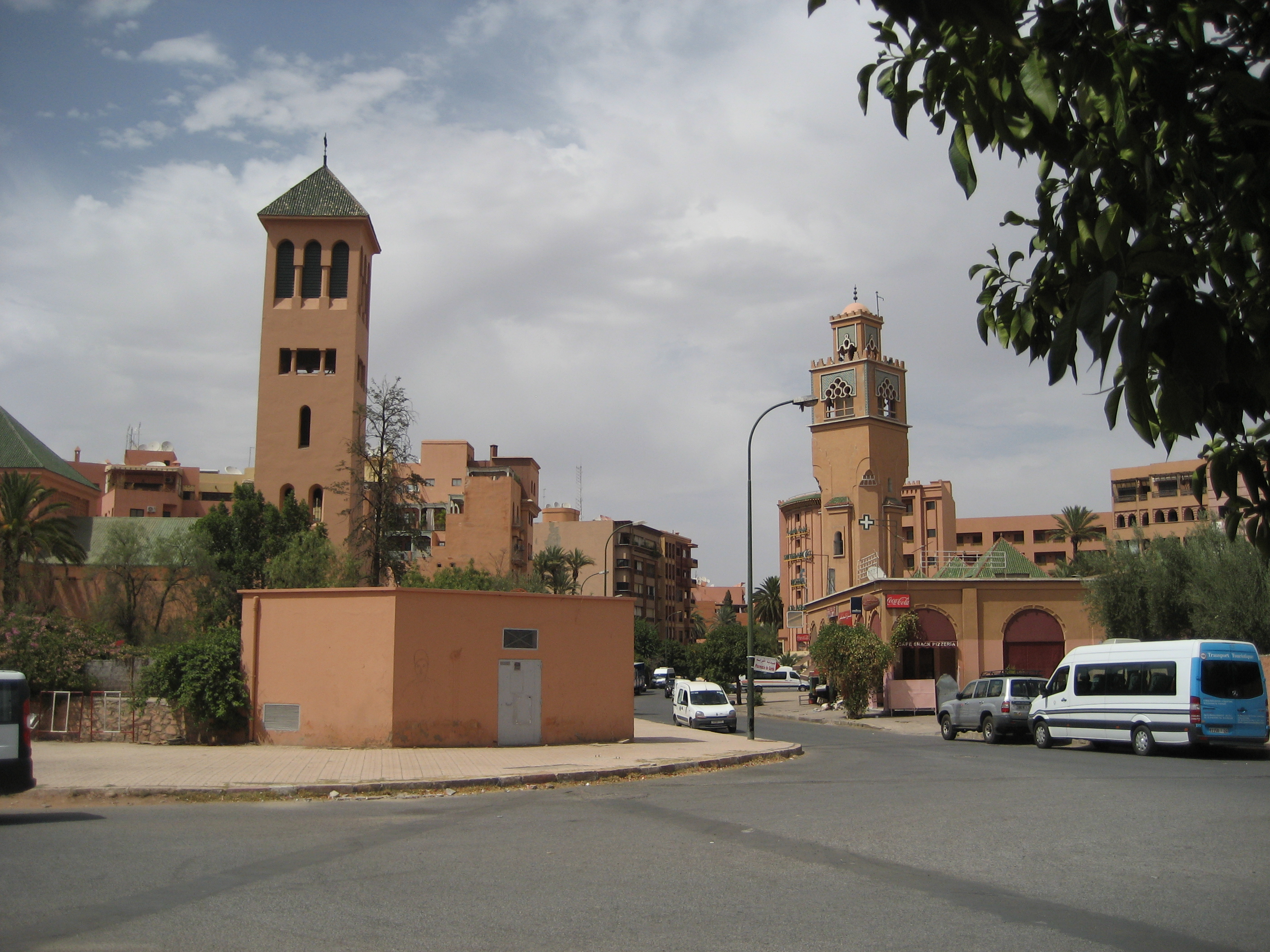 Mosque (right) and catholic church (left) in Marrakech (Eglise des Saints Martyrs) (Morocco)